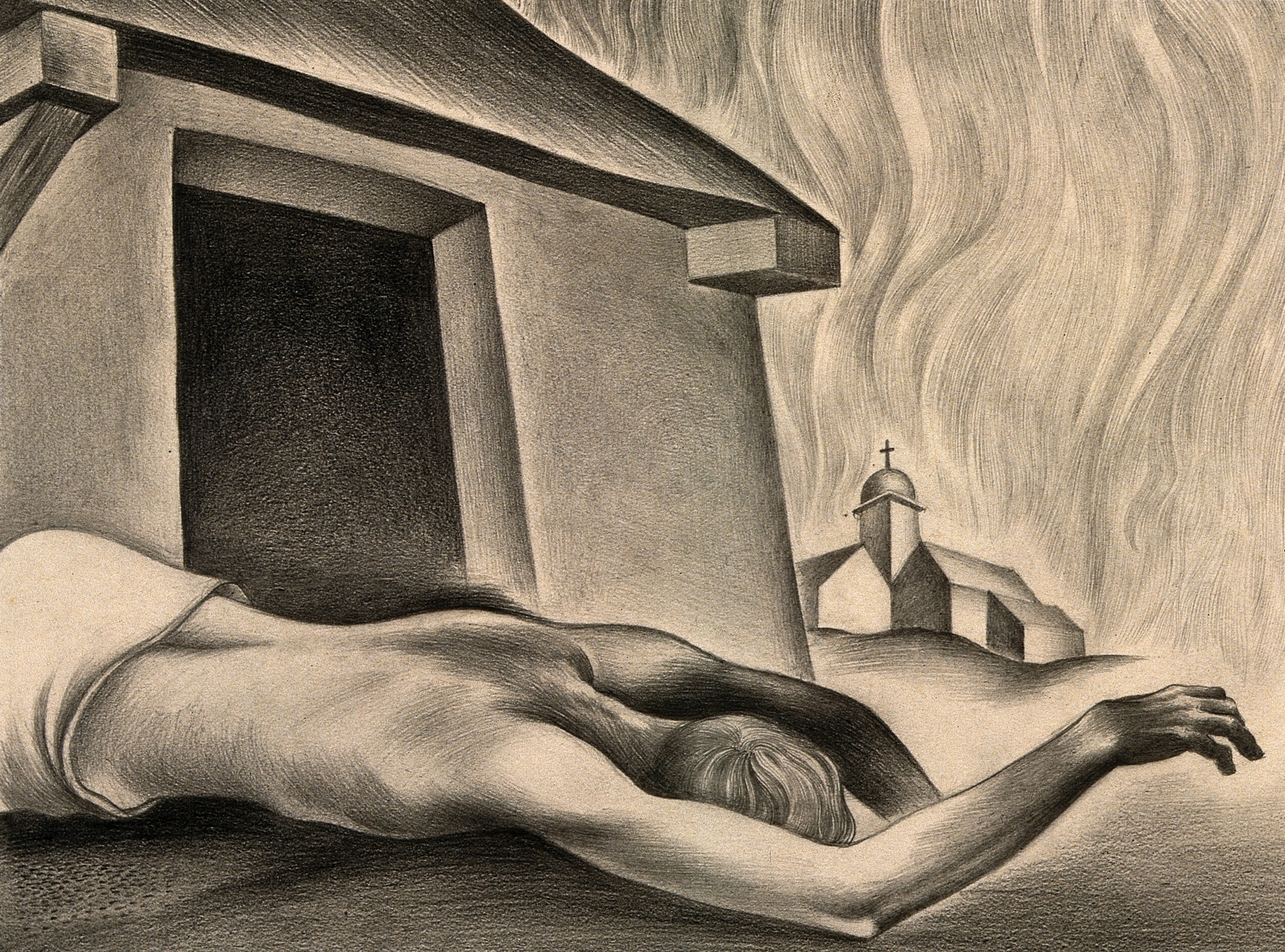 A man lying dead, from the plague, church and flames in background. Drawing by A.L. Tarter, 194-. Iconographic Collections Keywords: Albert Lloyd Tarter